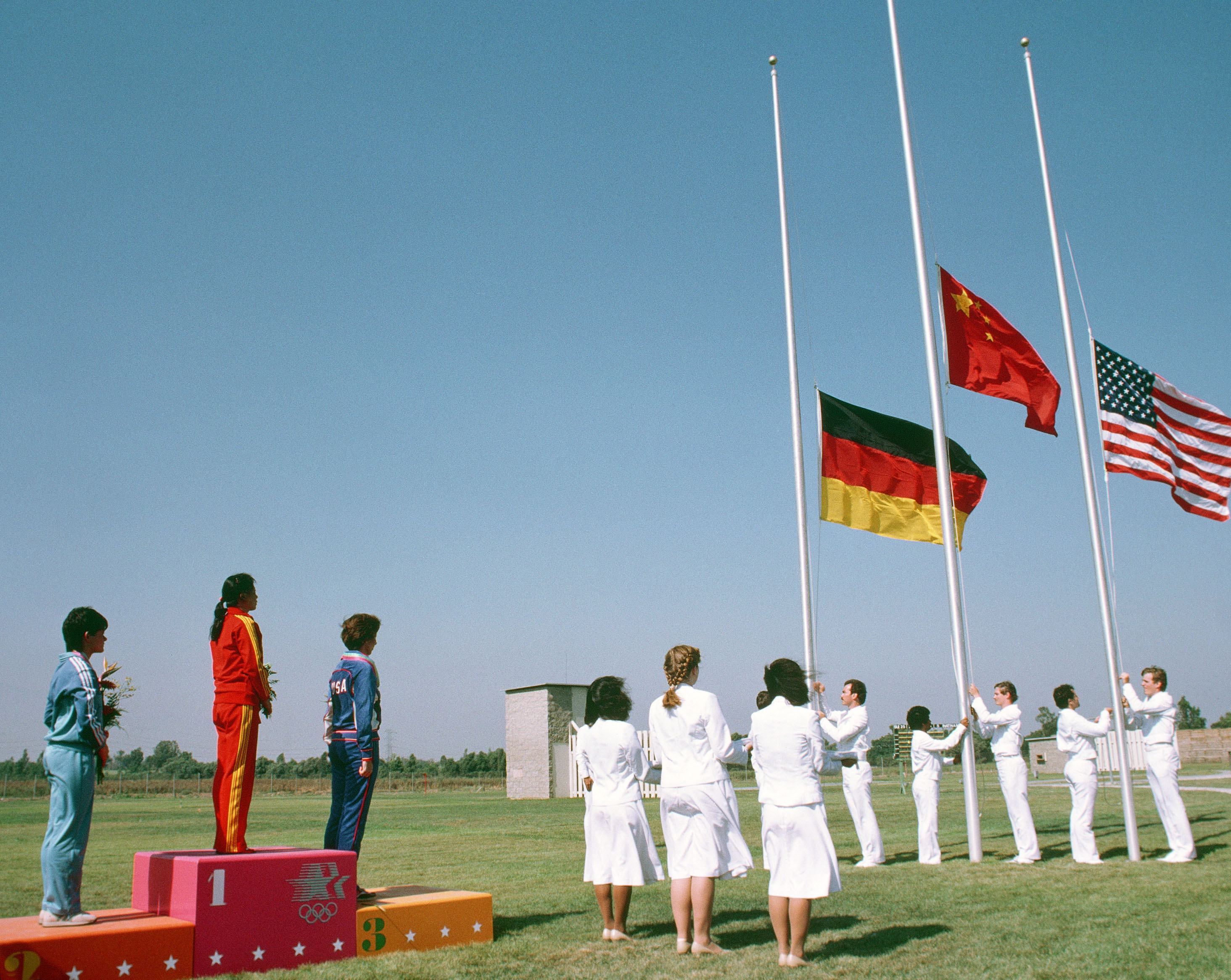 Wanda R. Jewell stands with gold medalist Wu Xiauxuan of China and silver medalist Ulrike Holme from West Germany, after receiving a bronze medal in the small-bore rifle competition at the 1984 Summer Olympics.